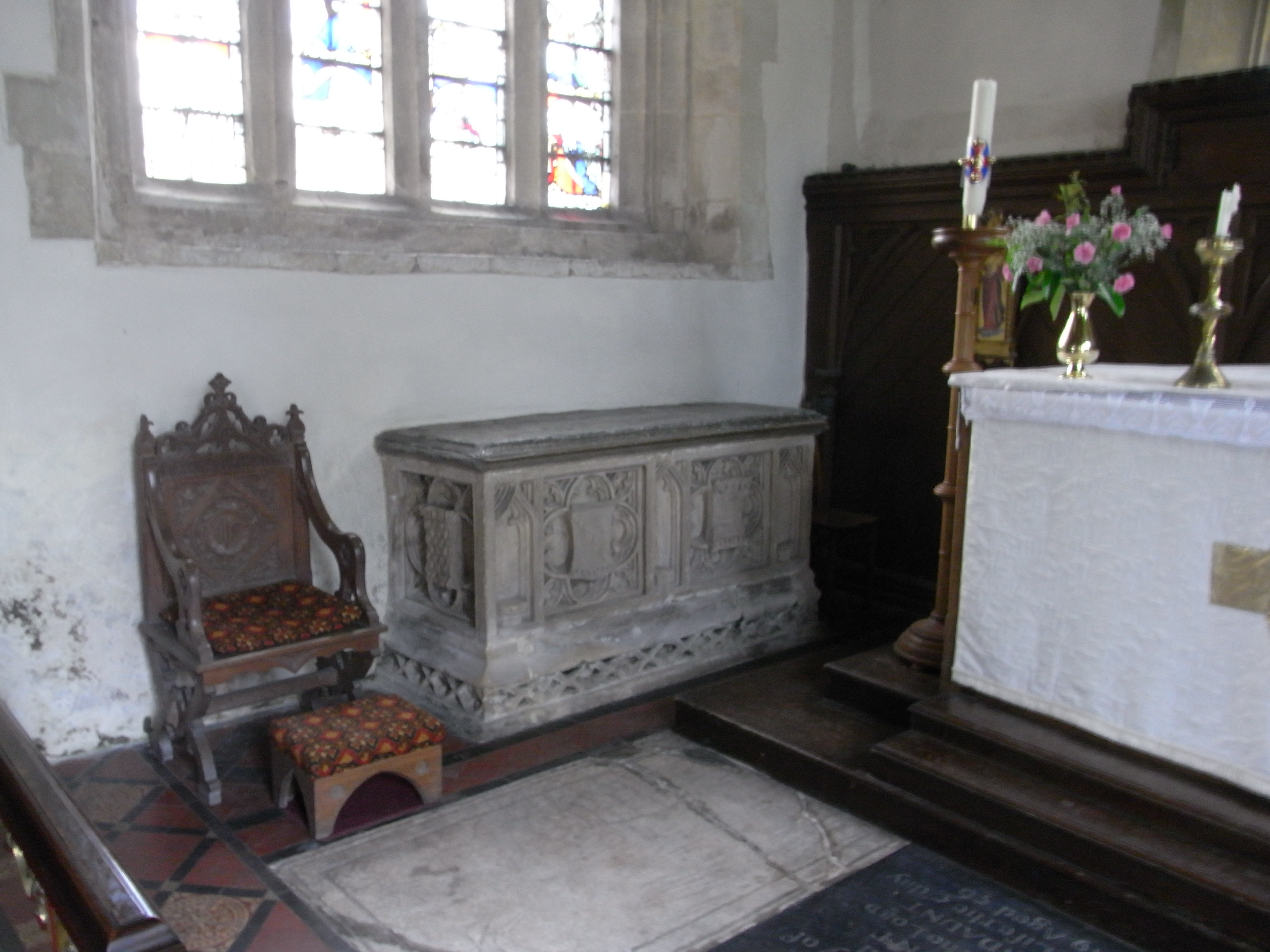 Tomb of Sir John Danvers(d.1514) and Anne Stradling(d.1539), Dauntsey Church, Wiltshire